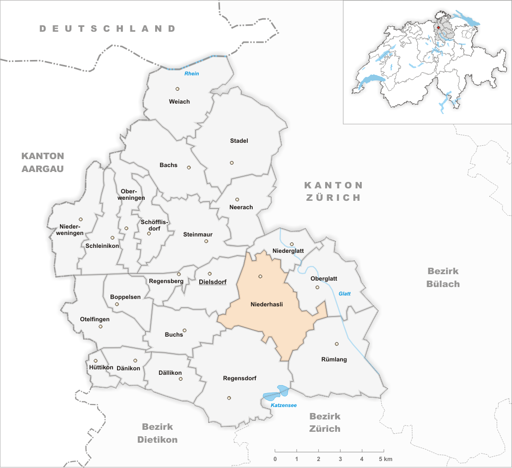 Municipality Niederhasli